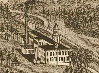 The Brookside Cotton Mill, as it appeared on an 1886 map of Knoxville, Tennessee, USA. This mill was located just north of the city's Mechanicsville section. Cropped from map entitled, "Knoxville, Tennessee, County Seat of Knox County."